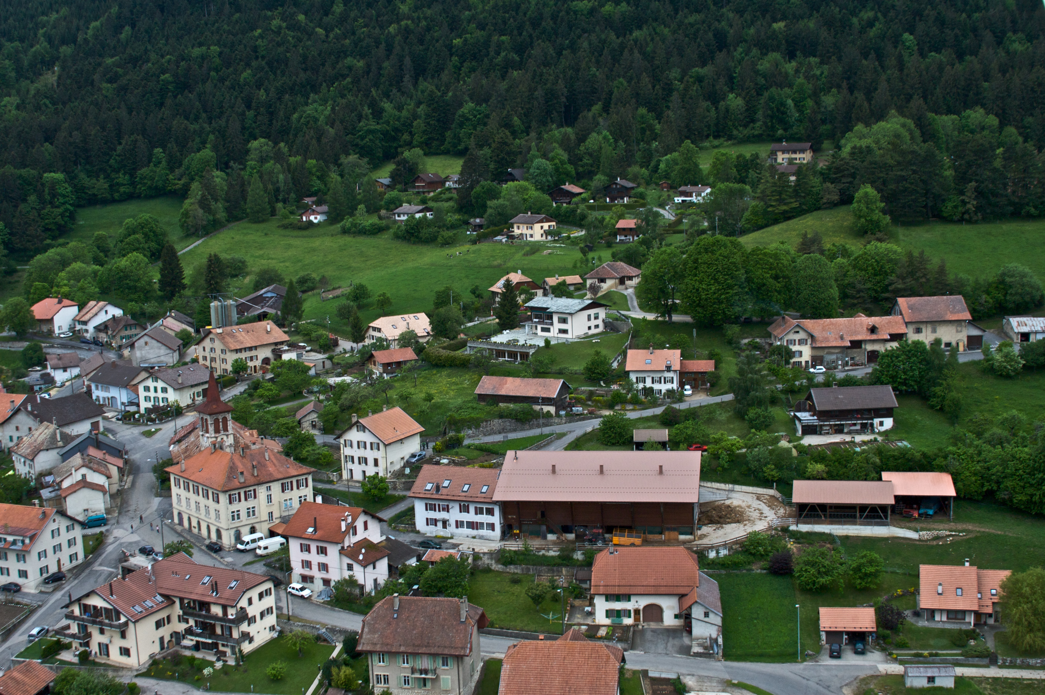 The village I come from, Premier, in the Jura vaudois, Switzerland.